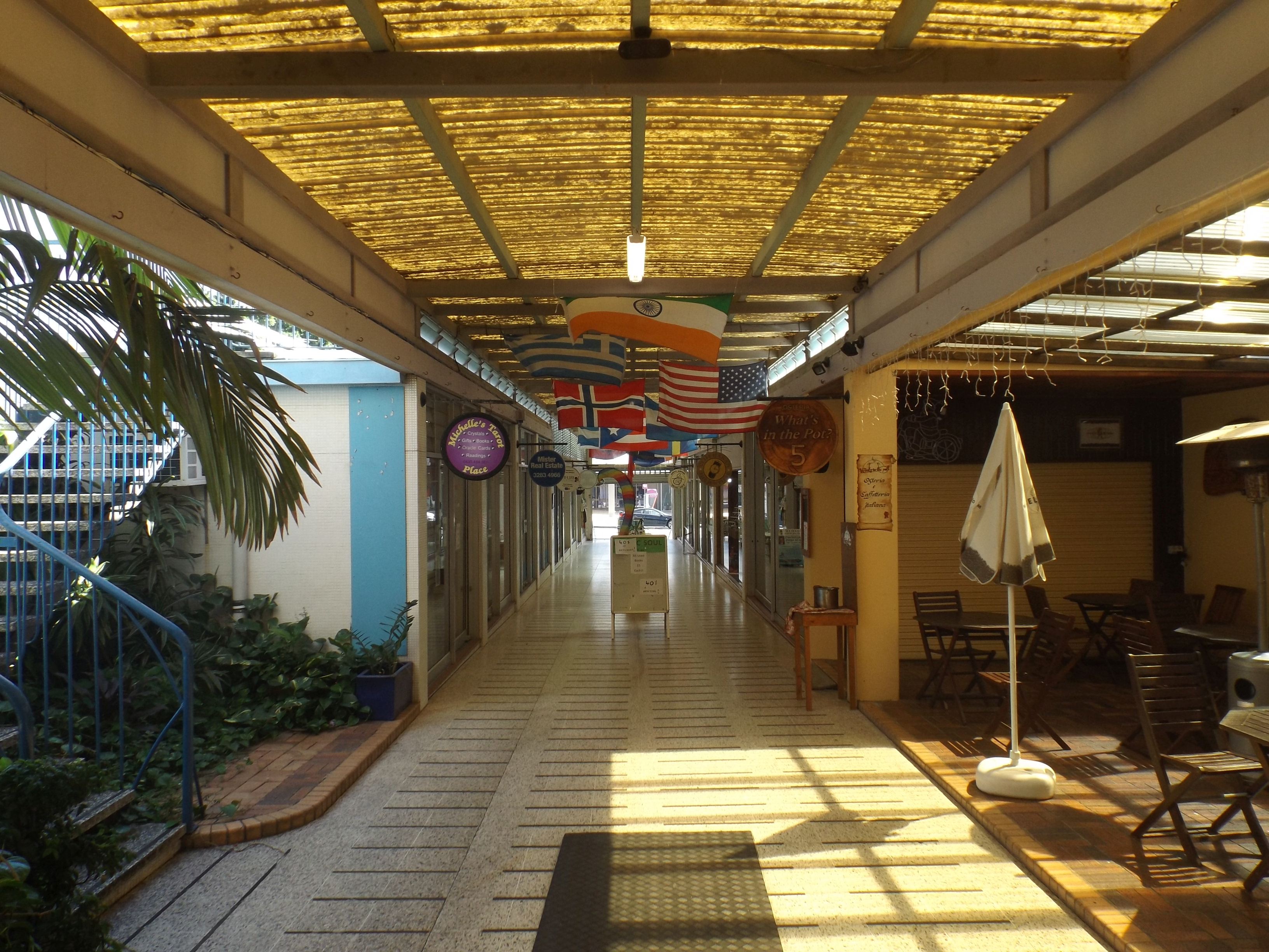 Photo of Comino's Arcade rear extension at Redcliffe, Moreton Bay, Queensland, Australia.